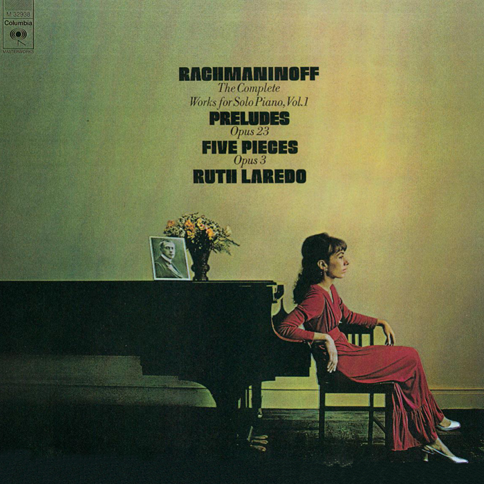 Cover of the LP Rachmaninoff - The Complete Works for Solo Piano Vol. 1 - Ruth Laredo